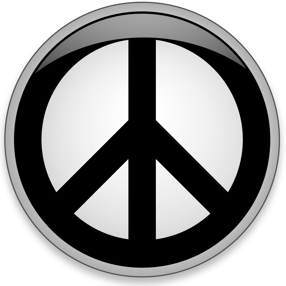 Peace button - Web 2.0 style